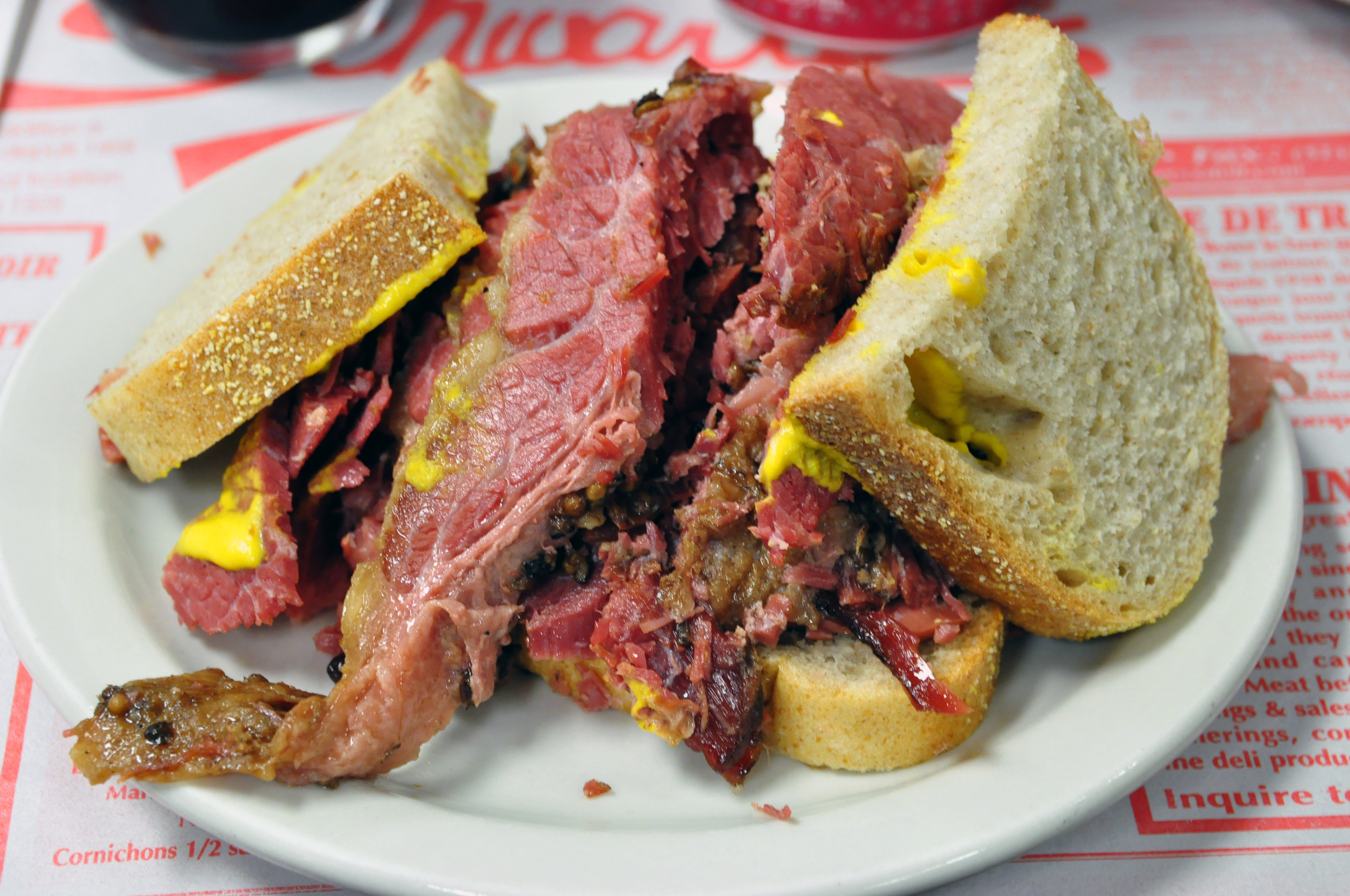 Schwartz's smoked meat medium fat Montreal Quebec 2010